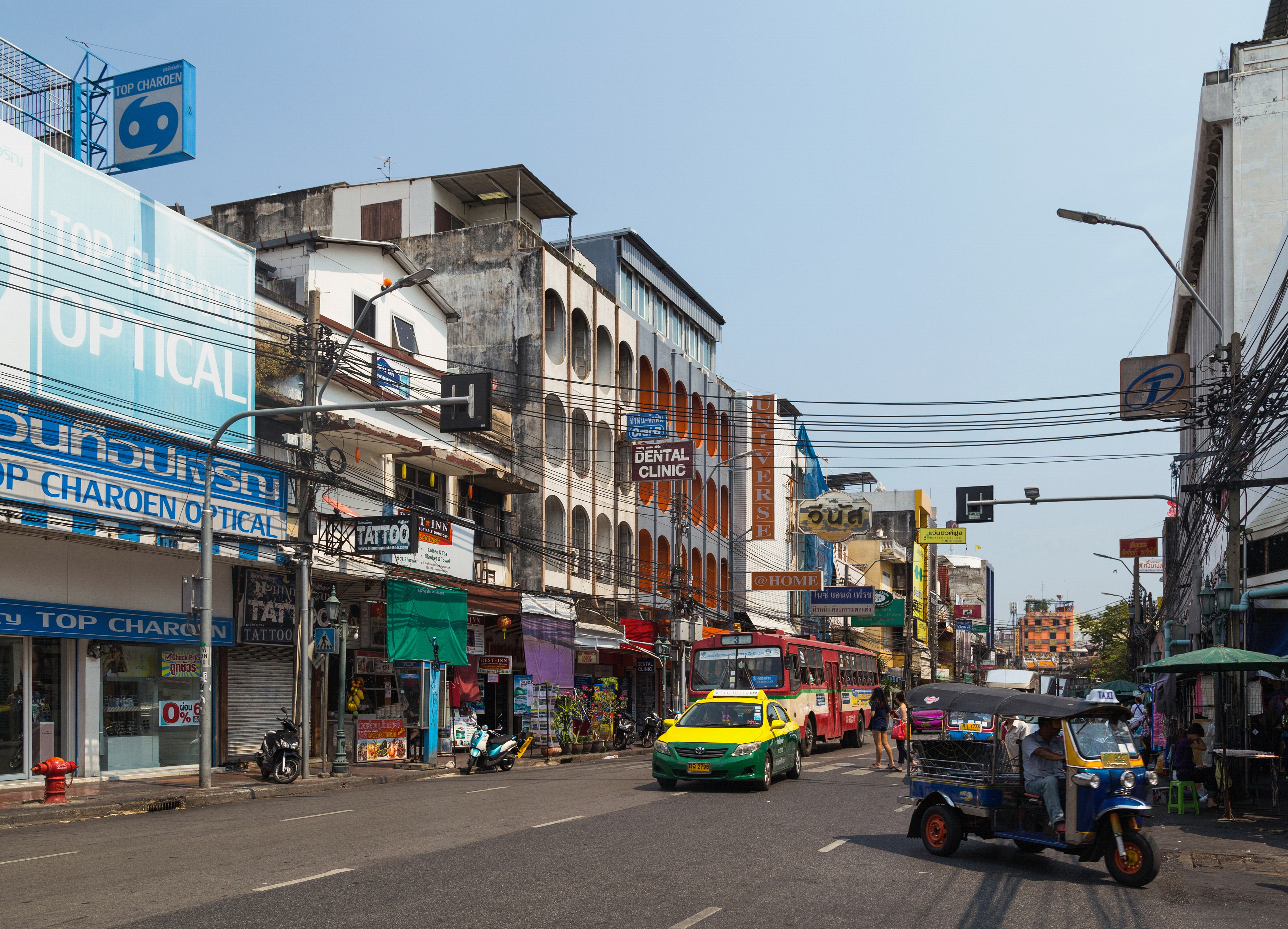 Chakrabongse Road. Phra Nakhon District, Bangkok, Thailand.